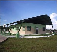 Photos City Manicoré Brazil